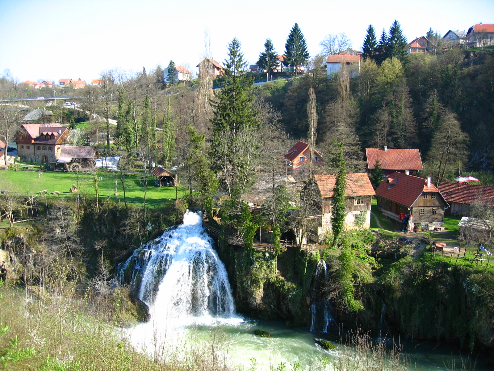 Rastoke, Slunj, Croatia. Panoramic view on Rastoke and waterfall from the north. Picture taken in April 2006.